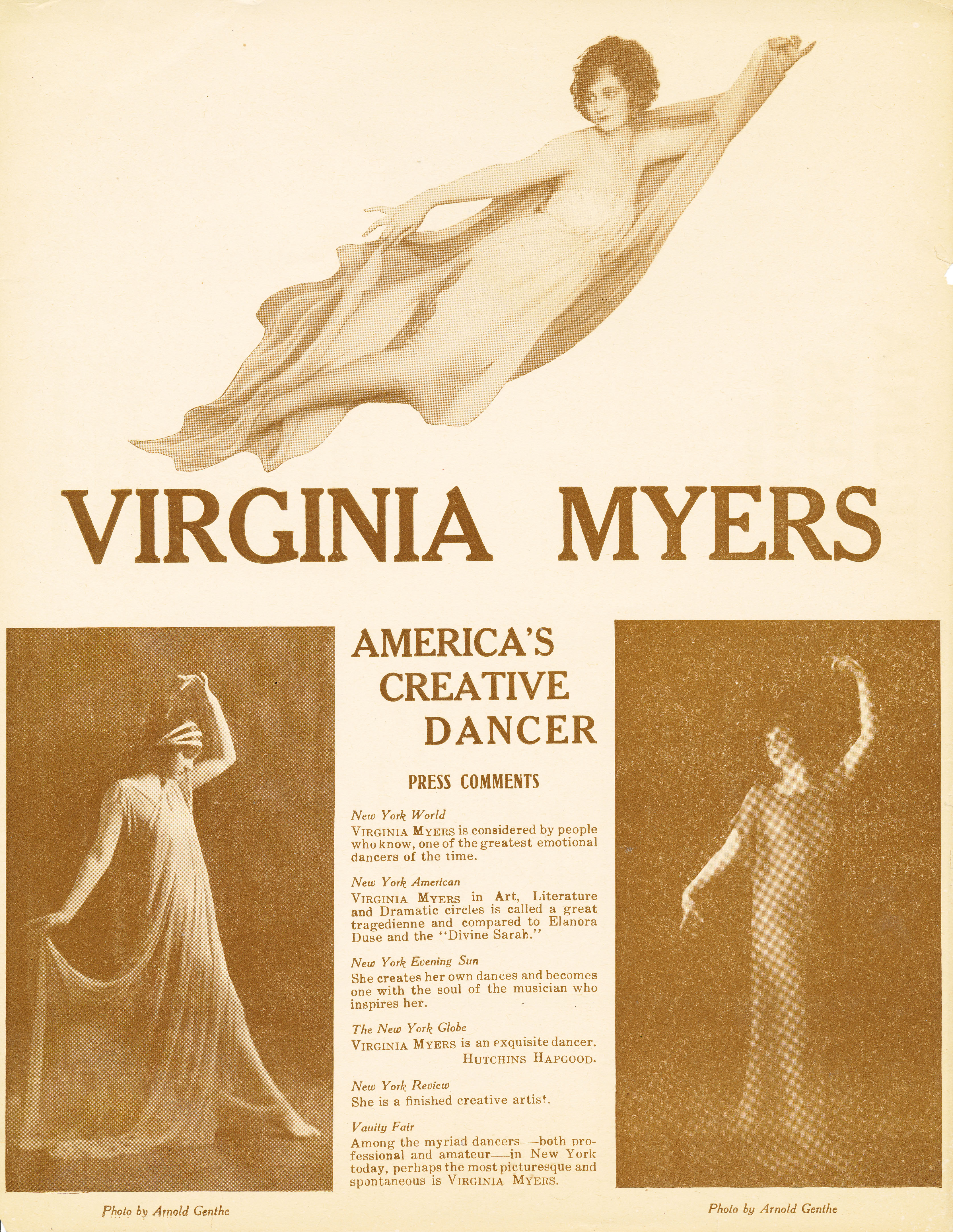 Publicity for dancer Virginia Myers' Carnegie Hall solo concert